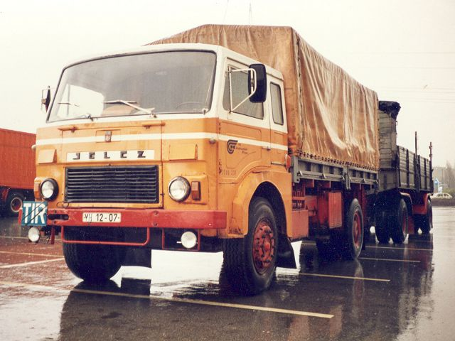 Jelcz truck towing a trailer.